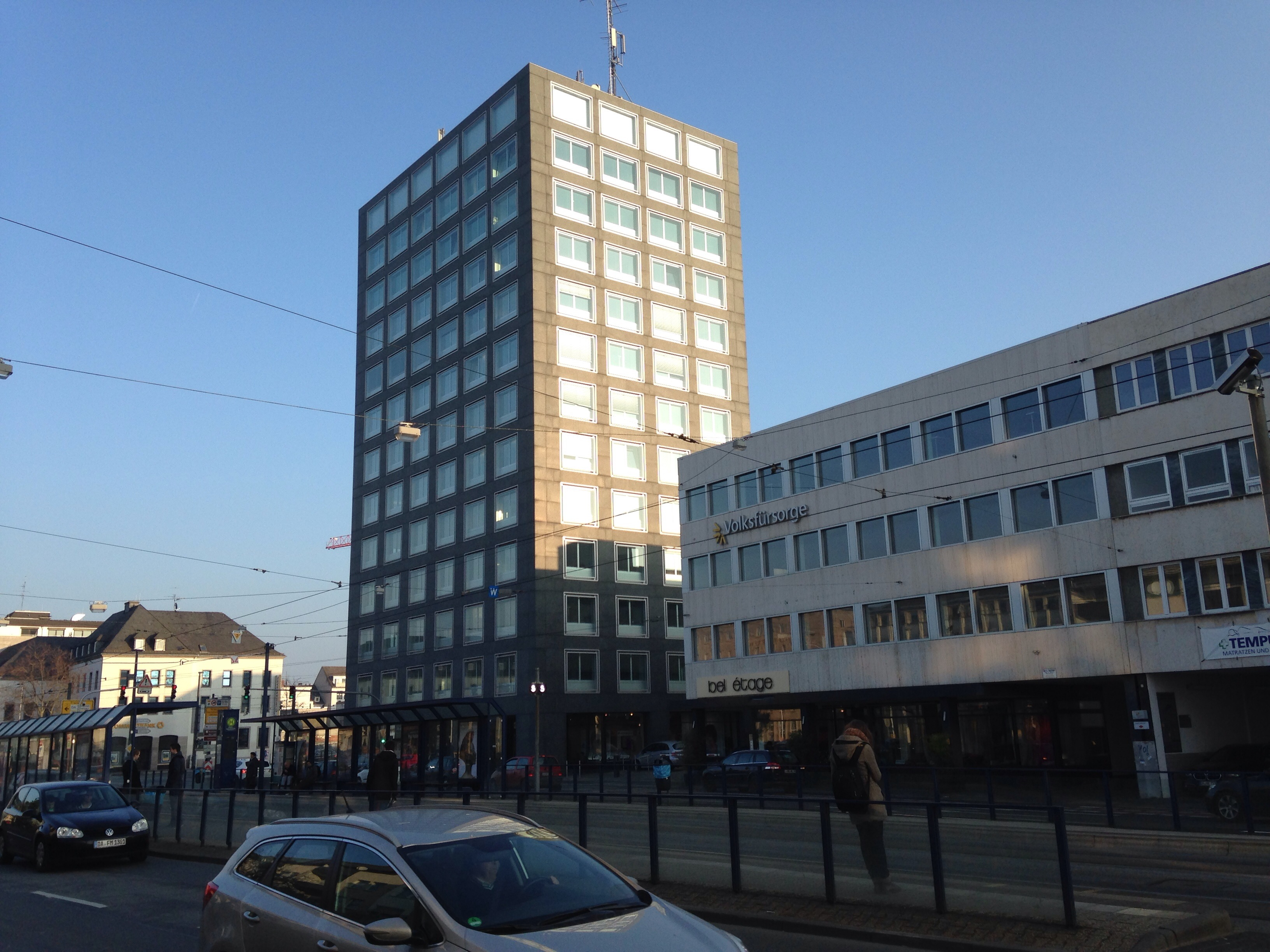 OfficeTower Darmstadt